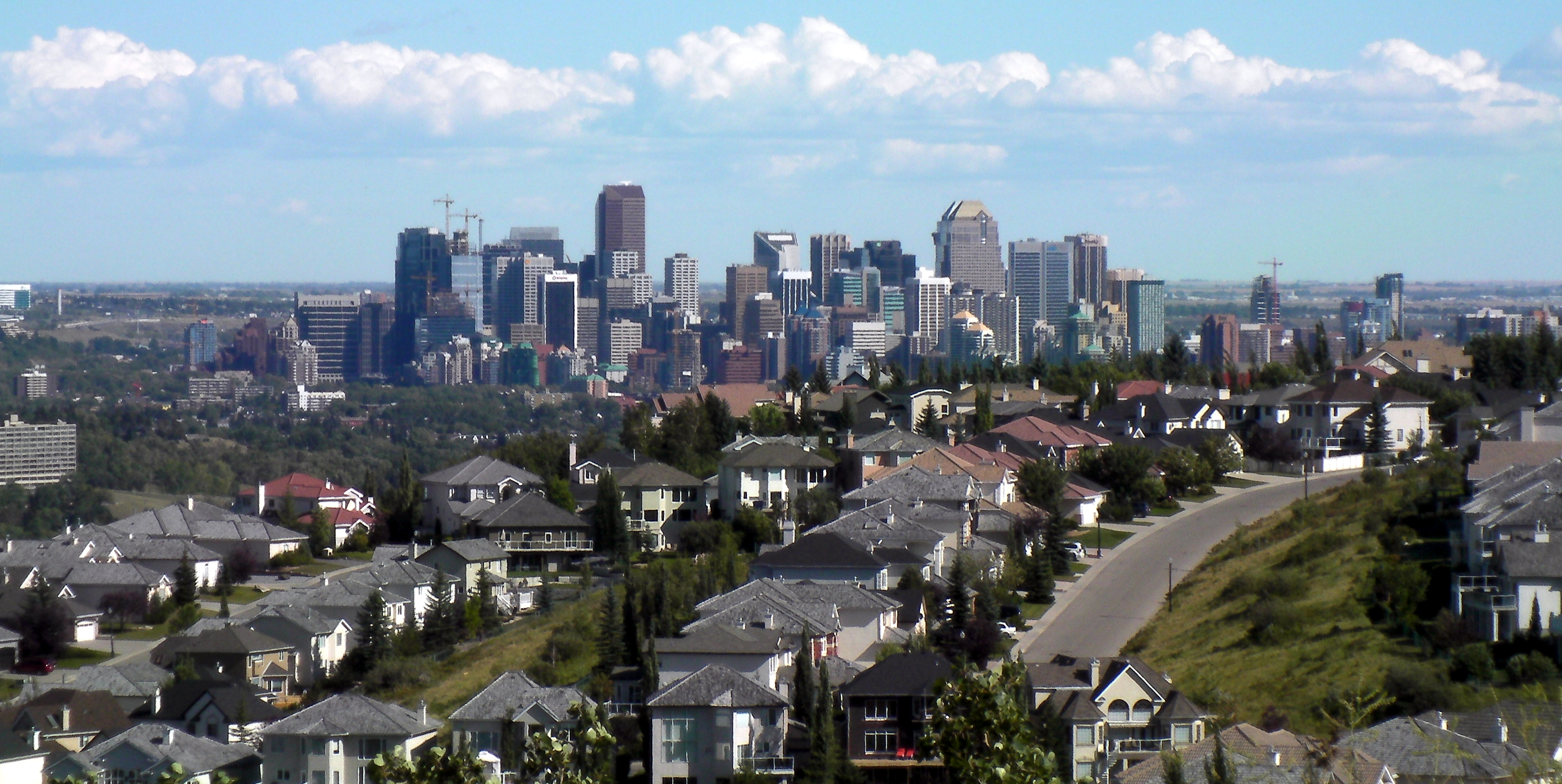 Neighbourhood of Patterson, Calgary, Alberta, Canada Downtown Calgary in background